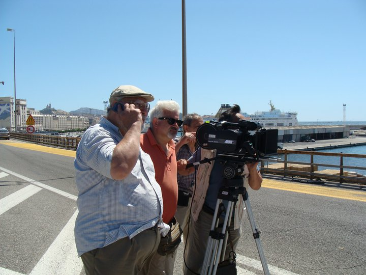 پشت صحنه فیلم برداری فیلم کابوس-فرانسه